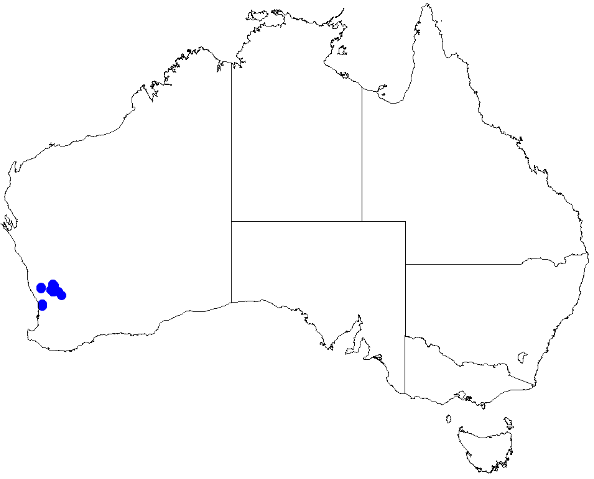 Boronia ericifolia occurrence data downloaded from Australasian Virtual Herbarium 10 April 2019 using This download included all the environmental overlay fields and ALA's data checking fields including "cultivated / escapee", "outside expert range for species", "latitude is negated", "coordinates are transposed", "taxon misidentified", "habitat incorrect for species", and "suspected outlier" (over 600 fields). Deleting occurrences for which any of the above were true, 46 specimens with coordinates were deleted. However this did not remove all obvious spatial outliers some of which were later removed by hand..